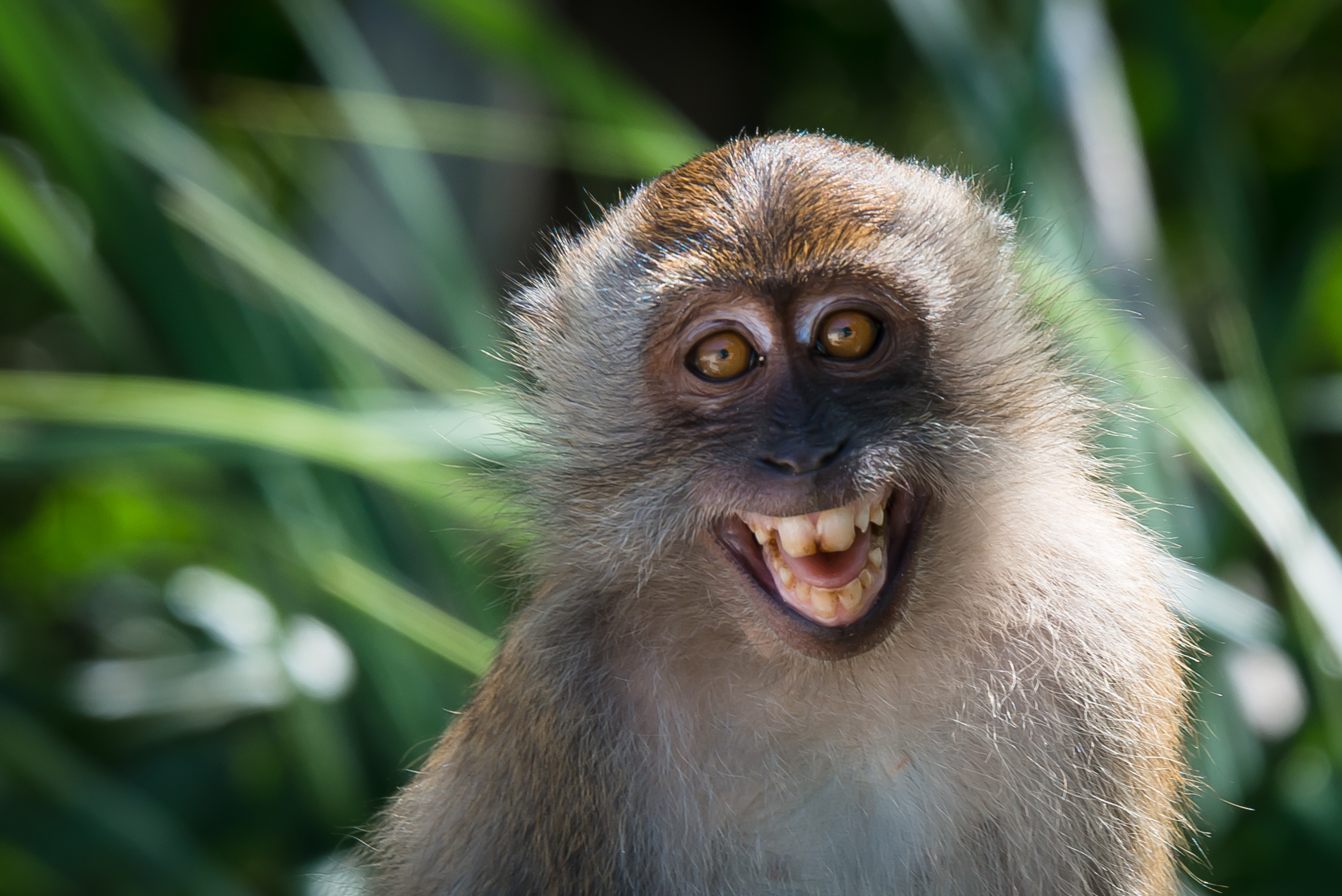 Macaca fascicularis in Tarutao National Marine Park